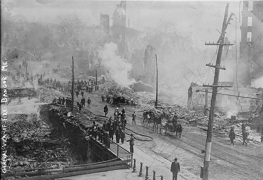 Bain News Service,, publisher. General view of fire, Bangor, Me. [between 1910 and 1915] 1 negative : glass ; 5 x 7 in. or smaller. Notes: Title from unverified data provided by the Bain News Service on the negatives or caption cards. Forms part of: George Grantham Bain Collection (Library of Congress). Subjects: Bangor. Me. Format: Glass negatives. Repository: Library of Congress, Prints and Photographs Division, Washington, D.C. 20540 USA, General information about the Bain Collection is available at Persistent URL: Call Number: LC-B2- 2193-4